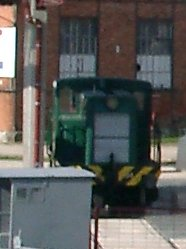 Shunter of the Caminhos de Ferro Portugueses (Portuguese railways) class 1100, in exhibition at the National Railway Museum, in Entroncamento, Portugal.